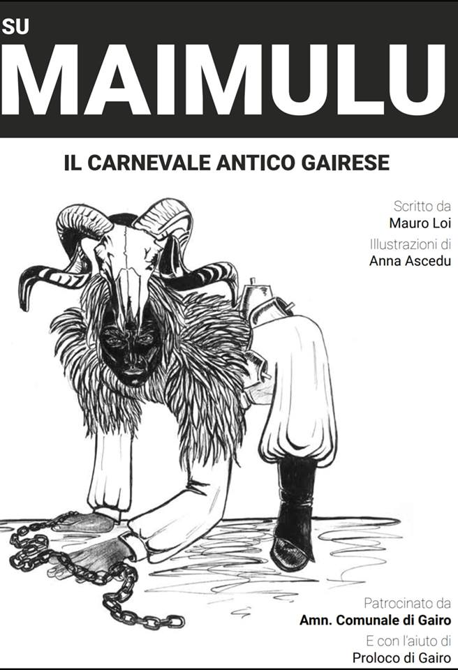 "Su Maimulu, il Carnevale antico gairese"